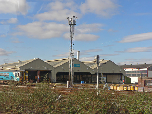 Arriva Trains Canton Depot, Cardiff.